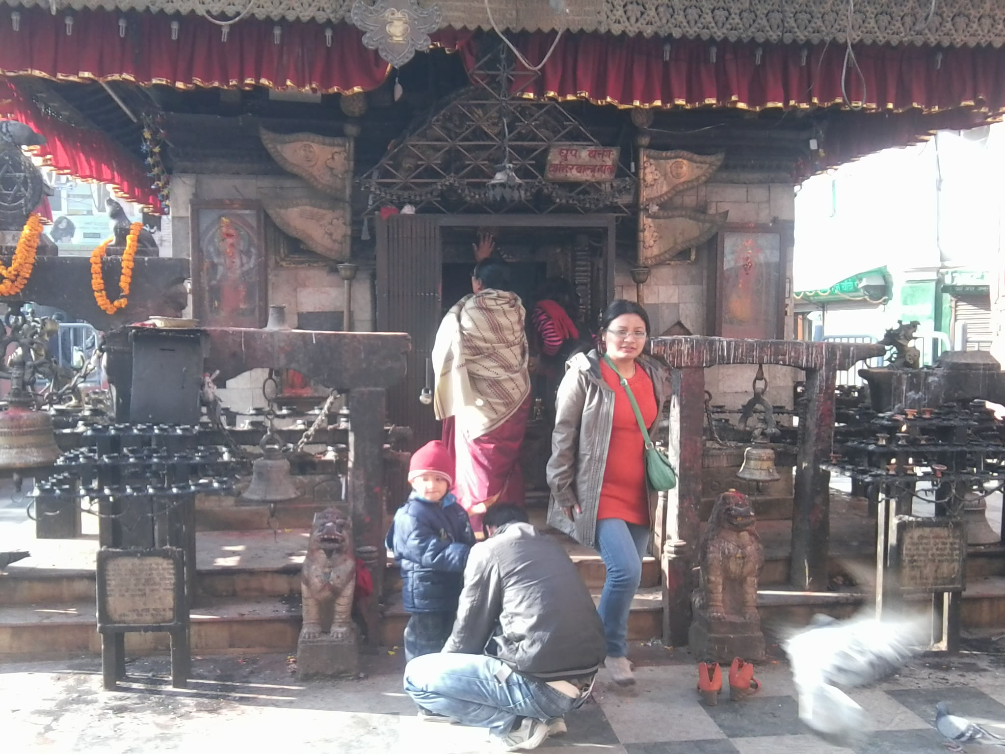 Lower front view of Bhatbhateni temple in Kathmandu.